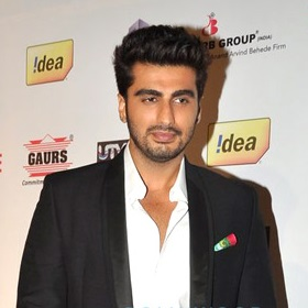 Arjun Kapoor at the 59th Filmfare Pre-Awards Party